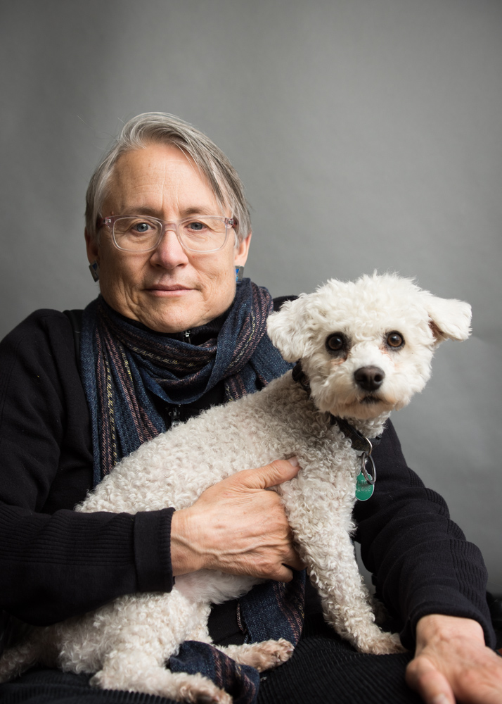 Christina Crosby with Moxie